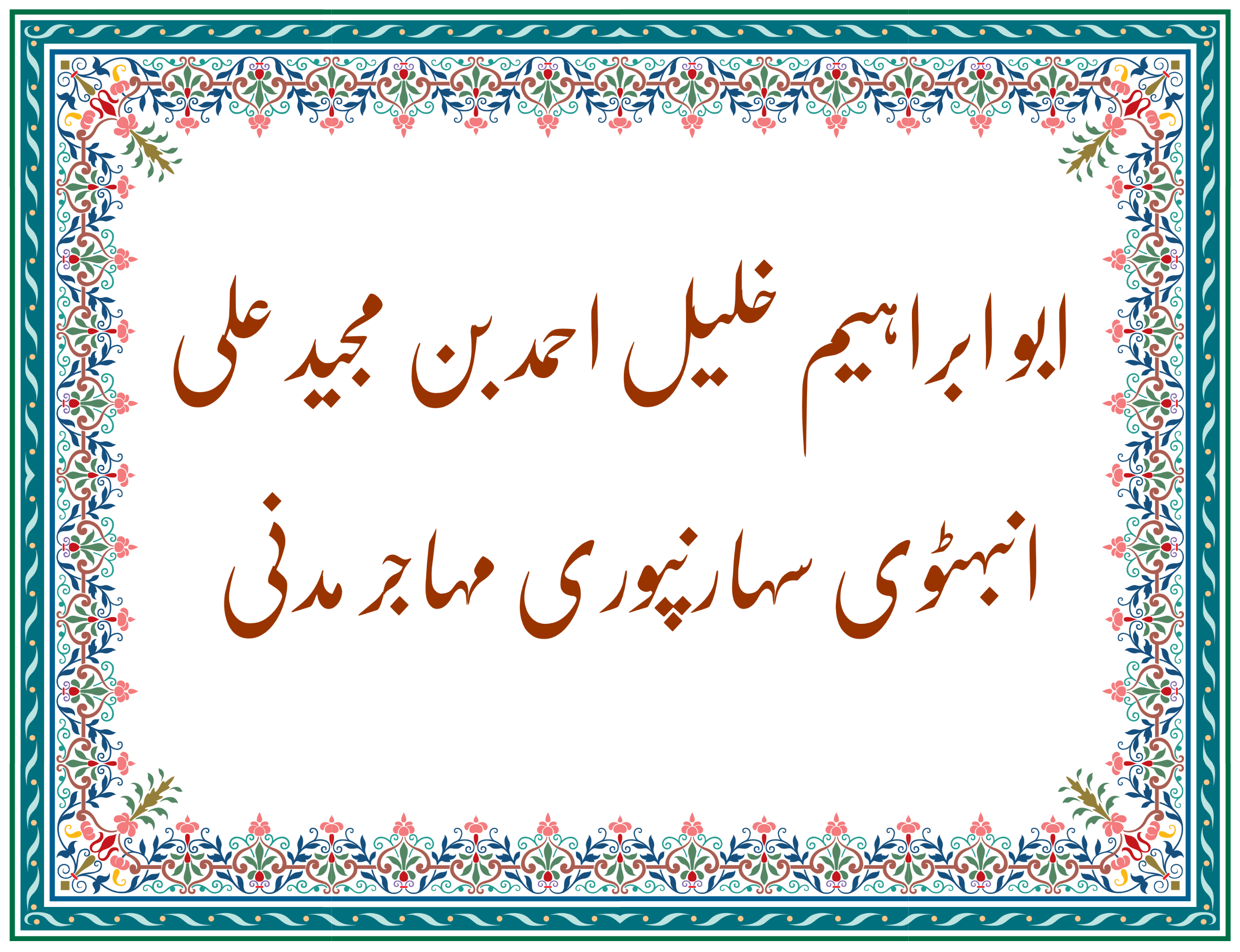 Urdu Calligraphy of Khalil Ahmed Saharanpuri